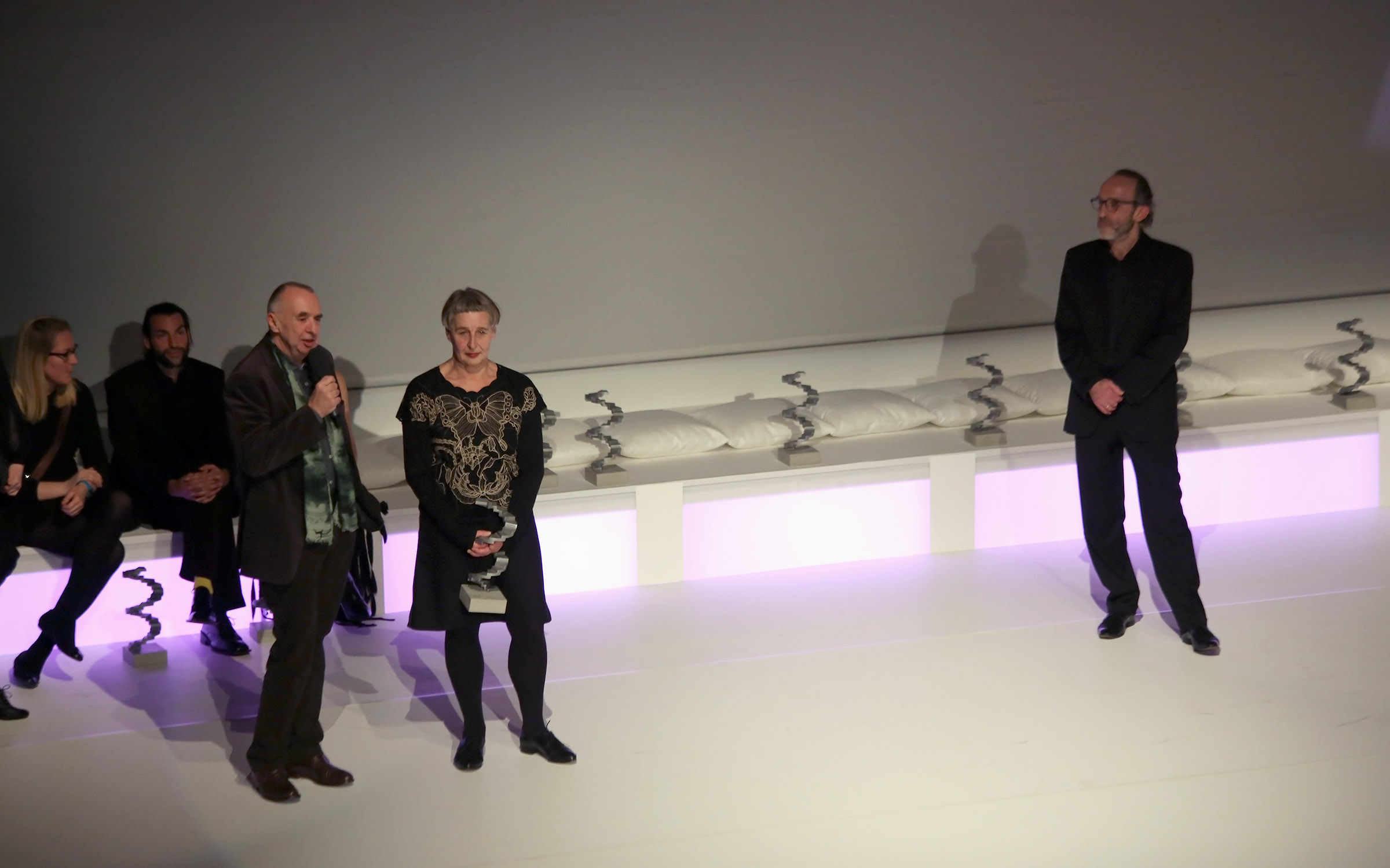 Gustav Deutsch and Hanna Schimek (best theatrical scenery in "Shirley – Visions of Reality") with presenter Karl Markovics (r.), Austrian Film Awards 2014 (Grafenegg, Austria).